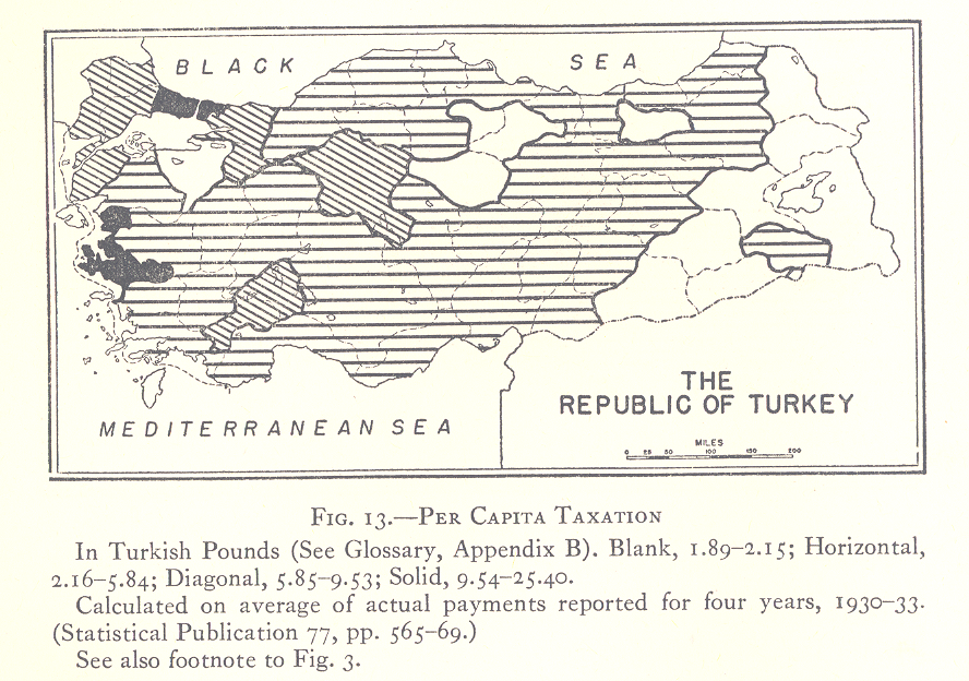 Density of Population of Turkey in 1927